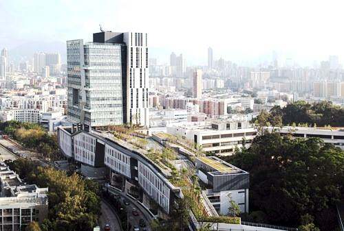 City University of Hong Kong, Kowloon Tong, Hong Kong 中文（香港）: 香港城市大學學術樓 III